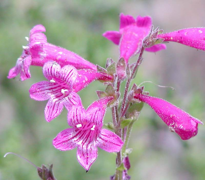 Photo of Penstemon triflorus at the Desert Demonstration Garden in Las Vegas